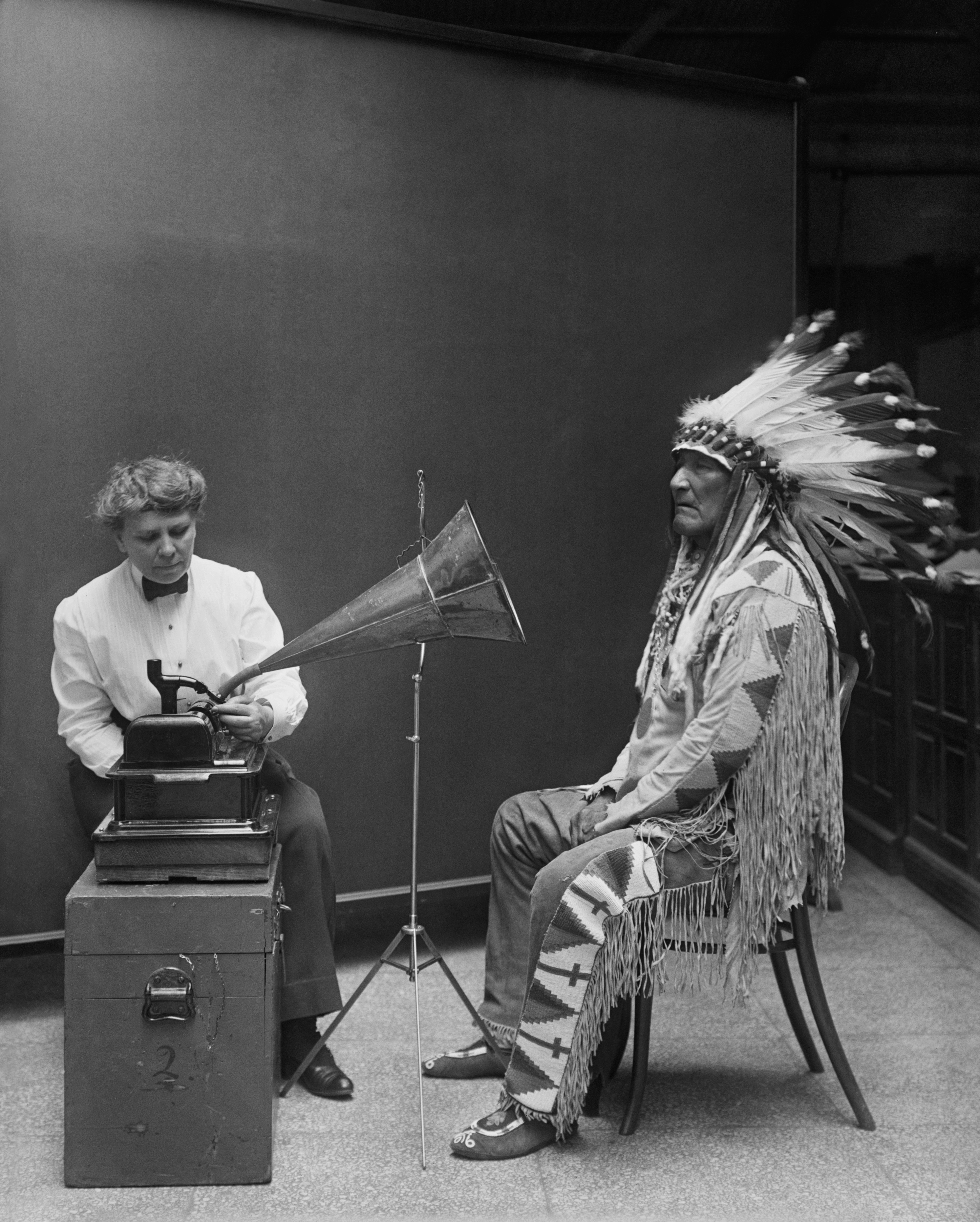 Part of a series of pictures depicting Frances Densmore at the Smithsonian Institution in 1916 during a recording session with Blackfoot chief Mountain Chief for the Bureau of American Ethnology. Library of Congress caption: "Piegan Indian, Mountain Chief, listening to recording with ethnologist Frances Densmore, 2/9/1916." National Geographic caption: "This 1916 image of Frances Densmore and Blackfoot leader Mountain Chief listening to a cylinder recording has become a symbol of the early songcatcher era."